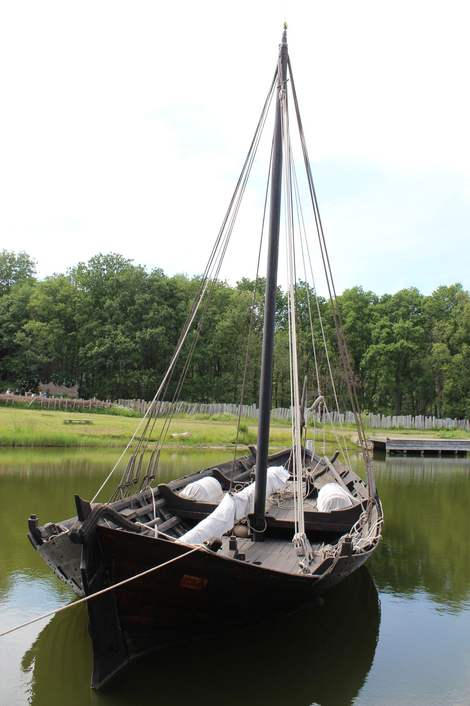 Reconstruction af Gedesbyskibet found near Gedesby on Falster. Both are reconstructions at Middelaldercentret near Nykøbing Falster